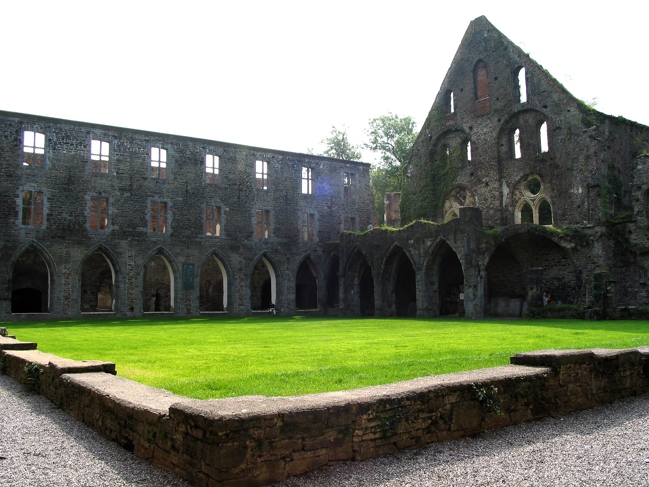 Villers-la-Ville (Belgique), ruines de la partie sud-est du cloître et de l'aile des moines (XII/XIIIe siècle).